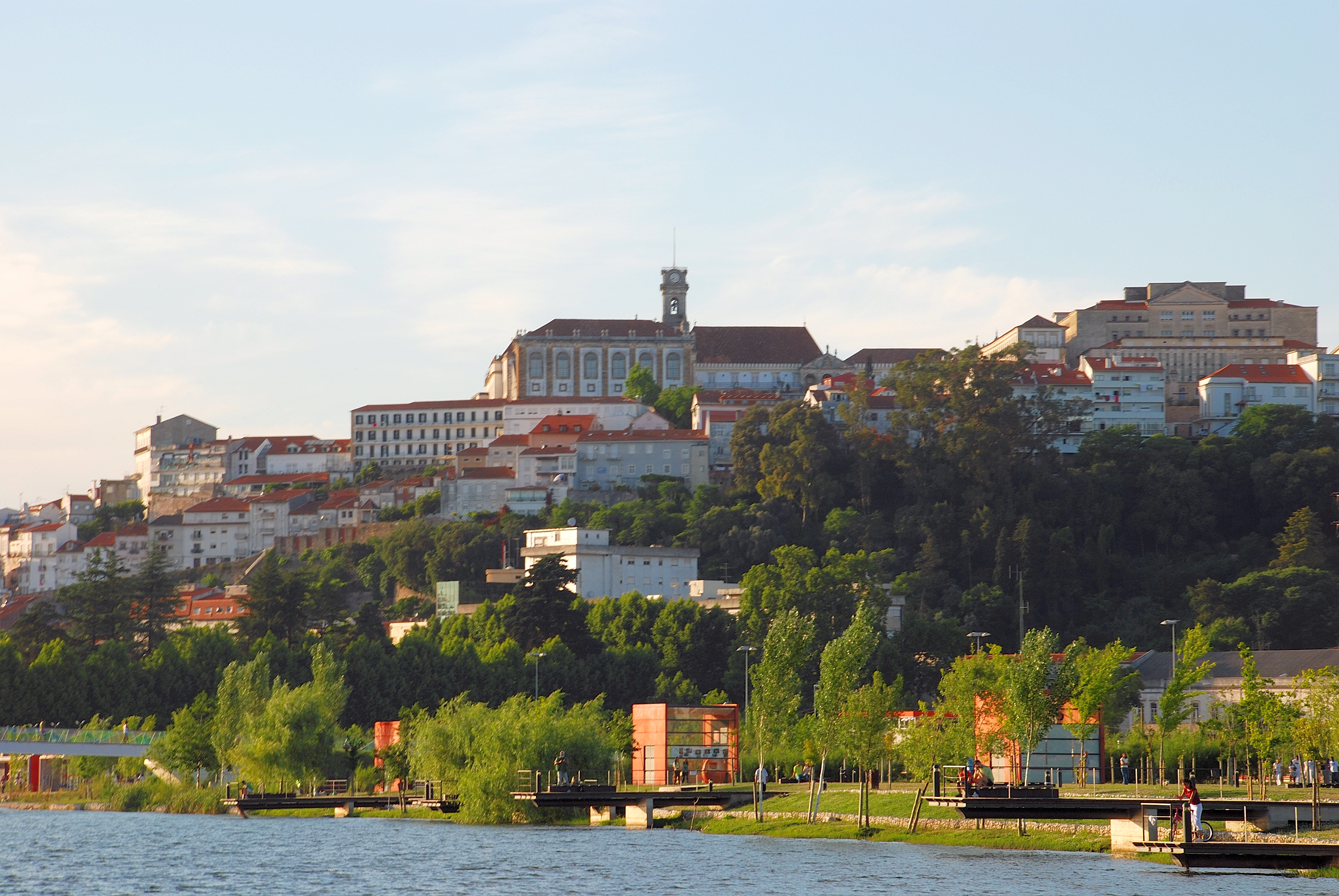 View of in Coimbra, Portugal